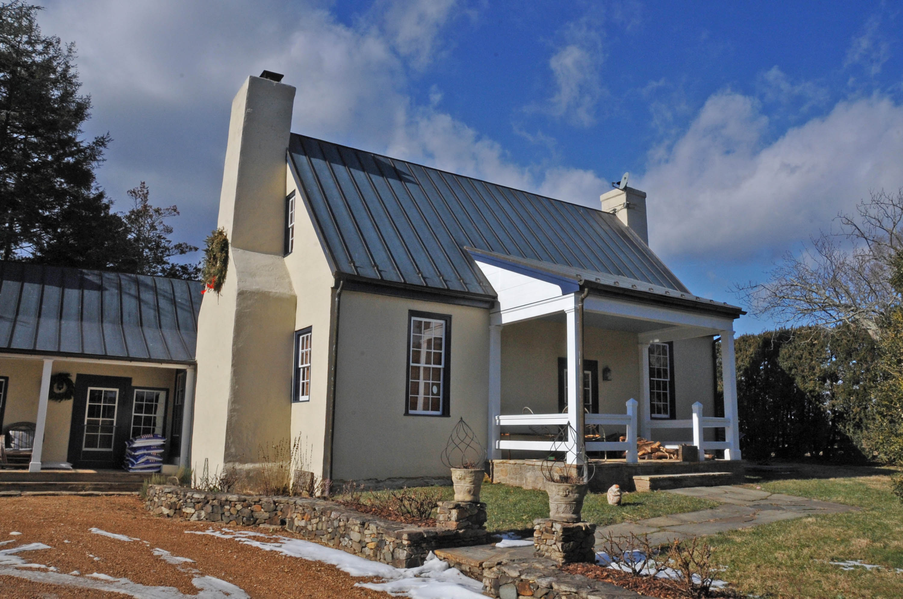 CHINN HOUSE, AKA LITTLE BLENHEIM;; CIRCA 1770 VERNACULAR STYLE. IT IS ONE OF THE OLDEST HOUSES IN THE DISTRICT WHICH COVERS A HUGE AREA OF NORTHEASTERN FAUQUIER COUNTY